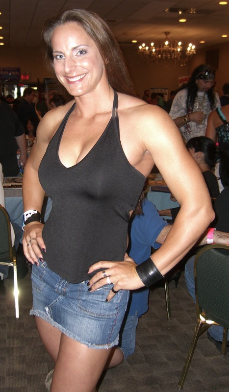 Professional wrestler Jamie Kovac at the Big Apple Summer Sizzler in Manhattan, June 13, 2009. This photo was created by Luigi Novi. It is not in the public domain, and use of this file outside of the licensing terms is a copyright violation.